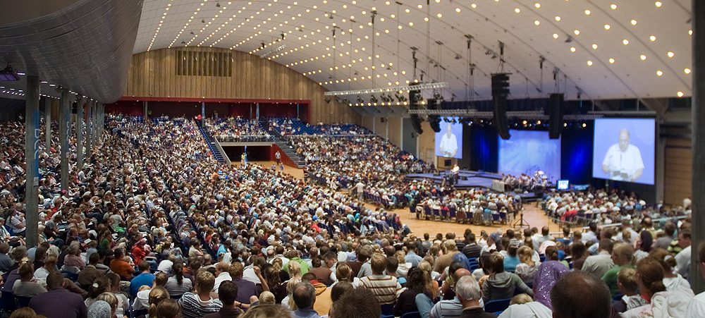 Meeting for Brunstad Christian Church at Oslofjord Convention Center